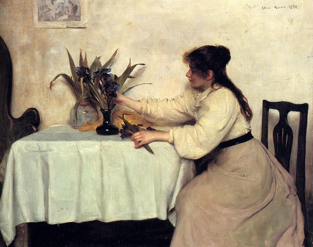 Arranging The Irises